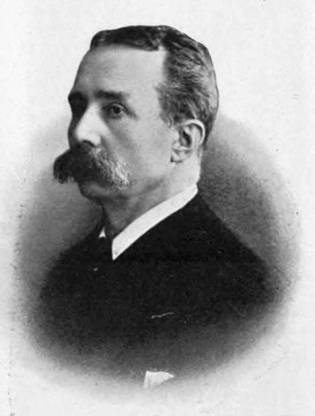 G H B Wright